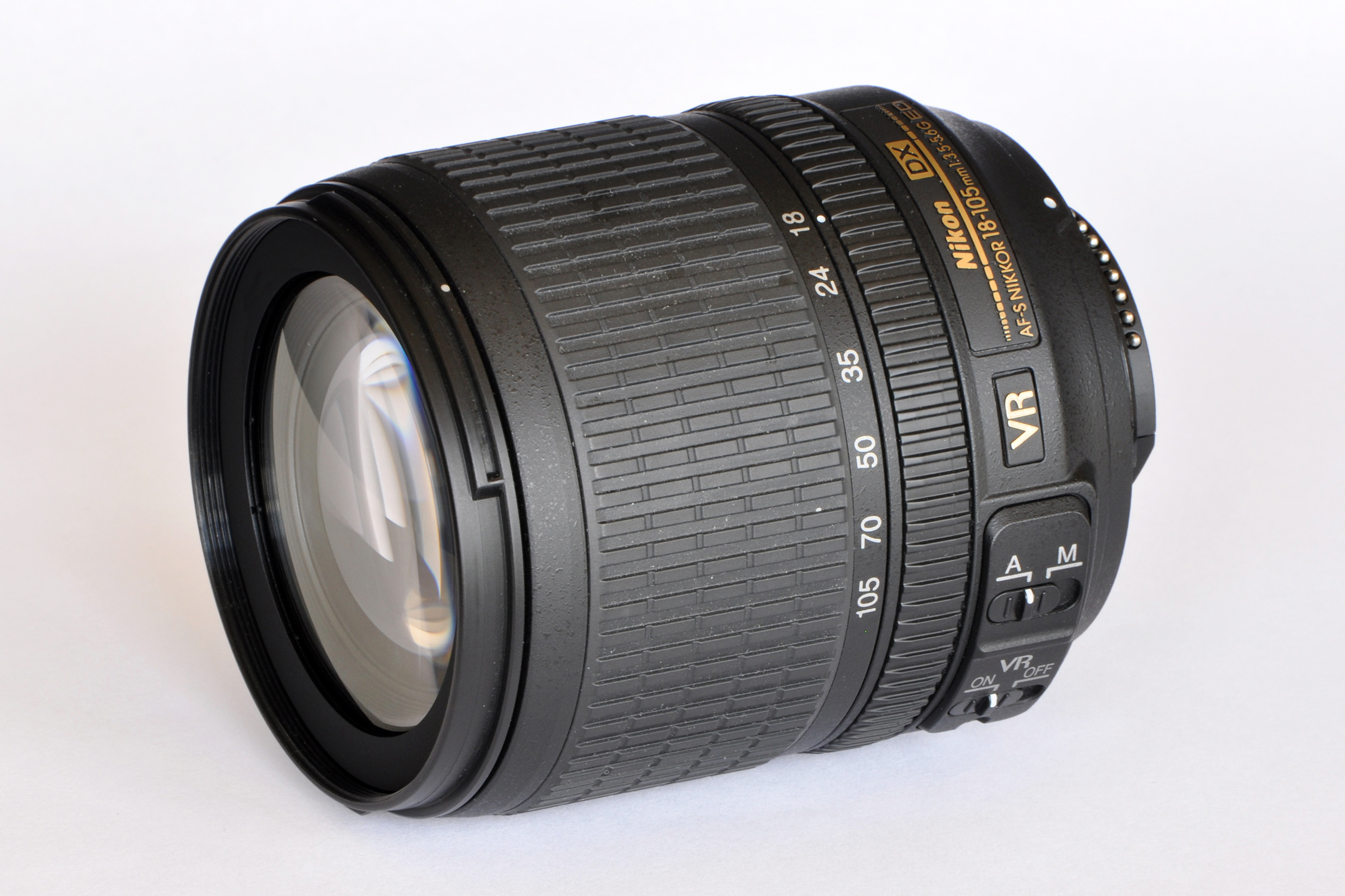 AF-S DX Nikkor 18-105mm f/3.5-5.6G ED VR lens by Nikon.